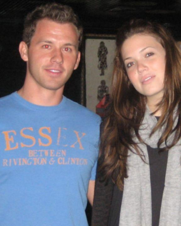 Mandy Moore with TV reporter Mike Essian in Myrtle Beach, SC.